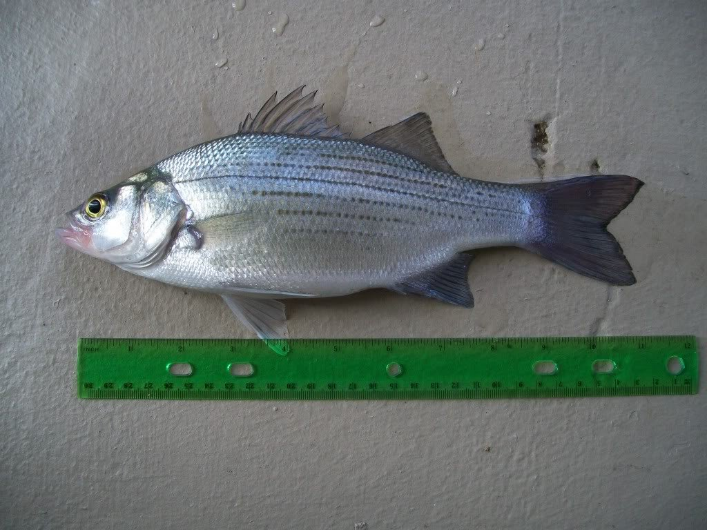 A White Bass caught from the White River in Northern Arkansas, near the town of Goshen. The fish is 11½ inches long and weighs a little less than a pound. It is male.